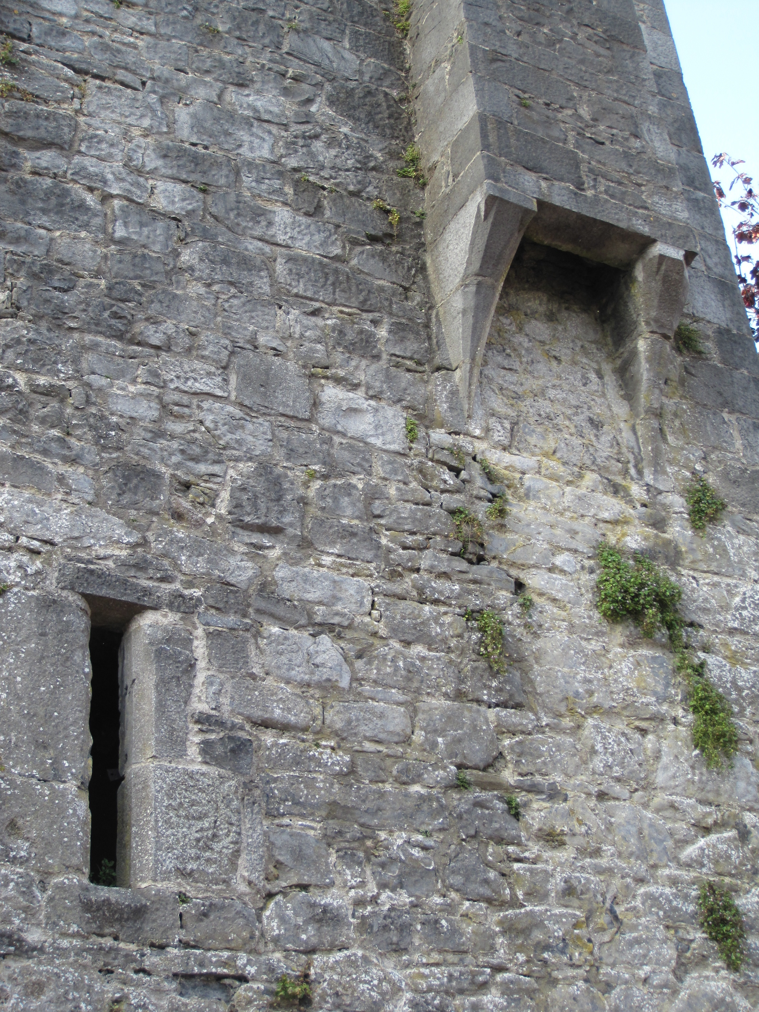 Magdalan Castle